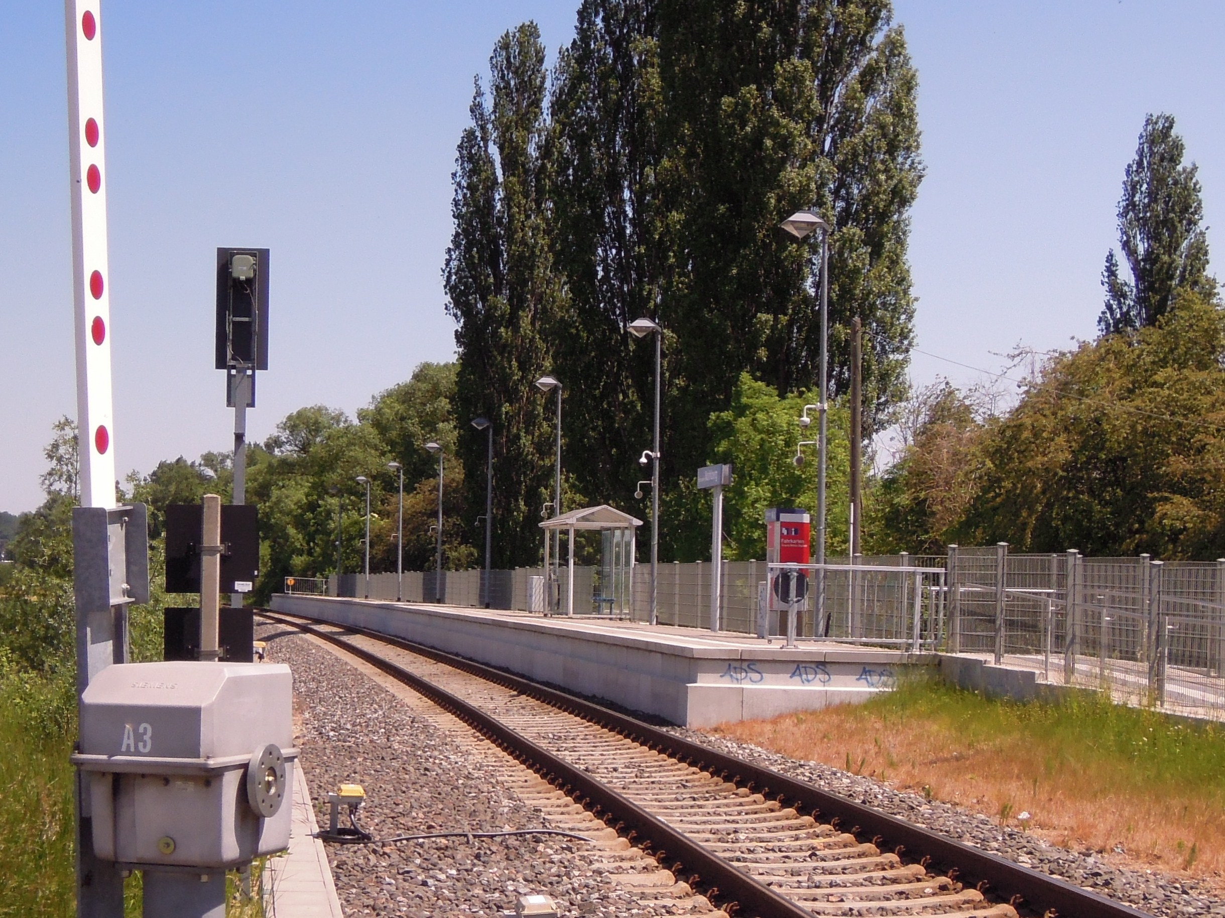 The Euregiobahn-station Eschweiler-Nothberg